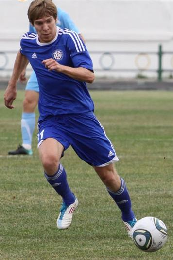 Oleg Kozhanov with FC KAMAZ Naberezhnye Chelny.